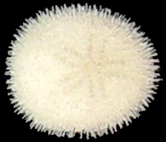 Picture of Echinocyamus pusillus